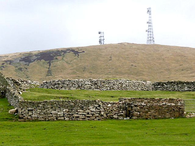 Clumlie Broch, north of Boddam